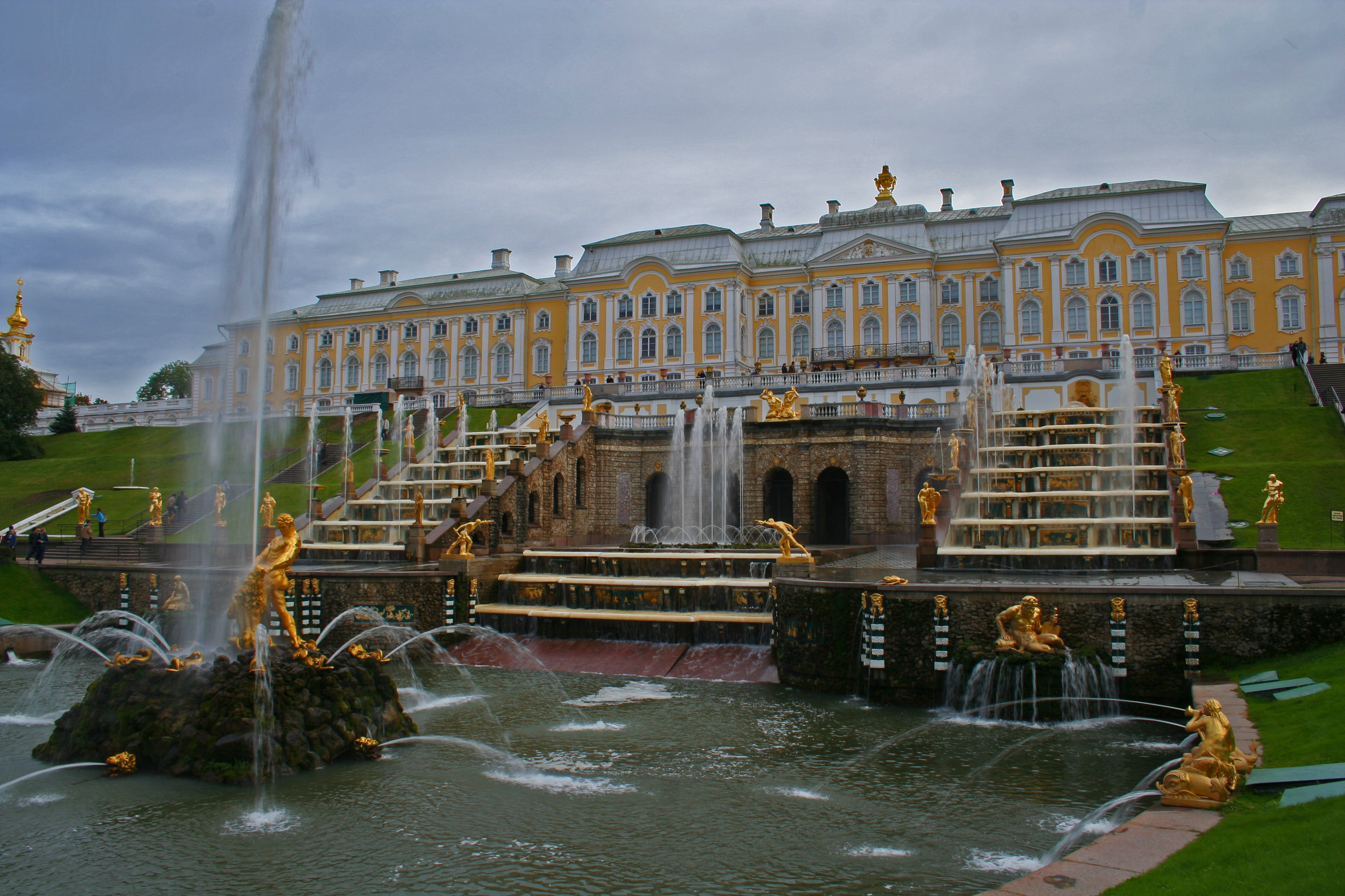 Lower Park in Peterhof, Saint Petersburg. Big Cascade.